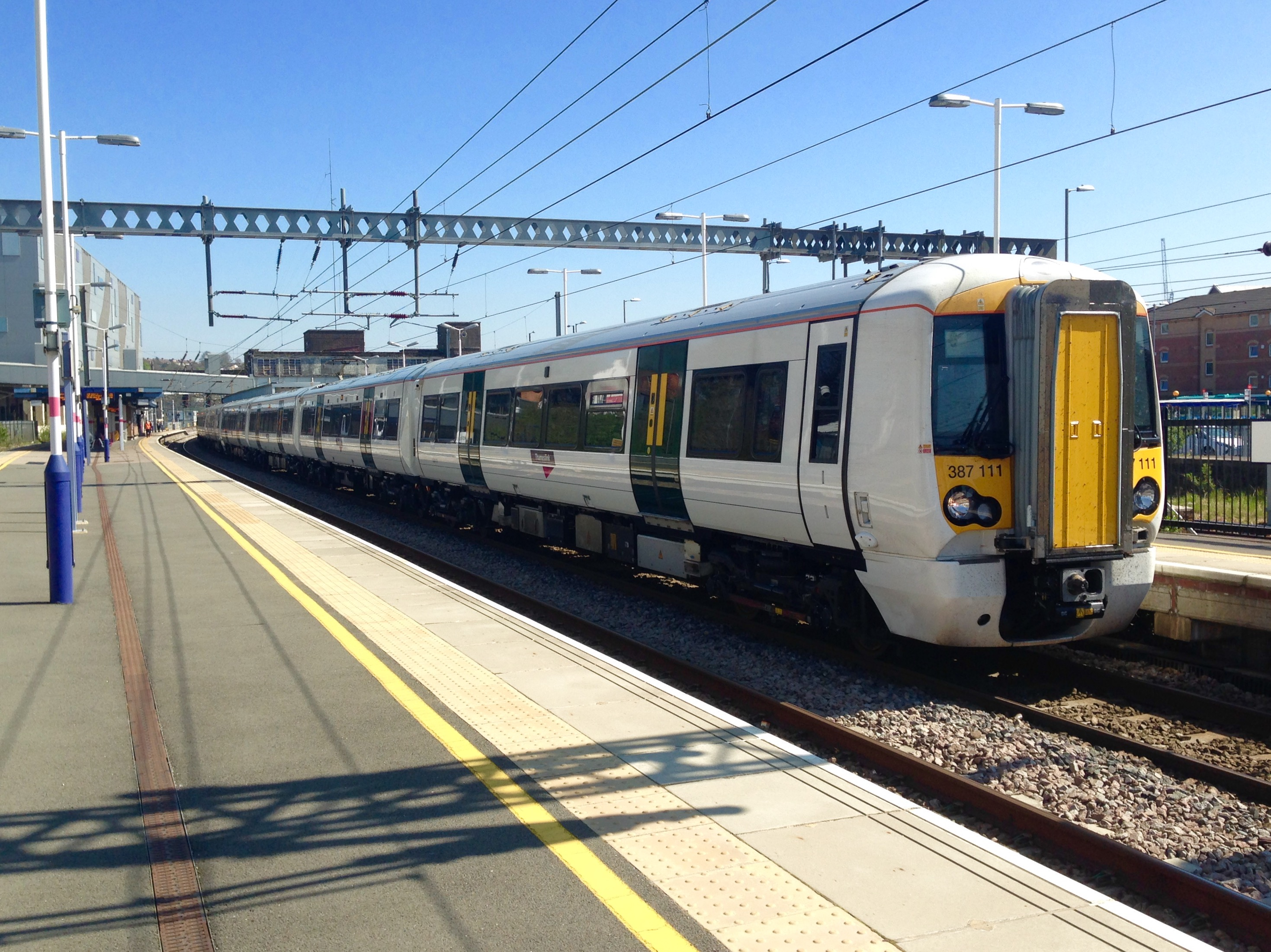 A class 387 train at Luton station